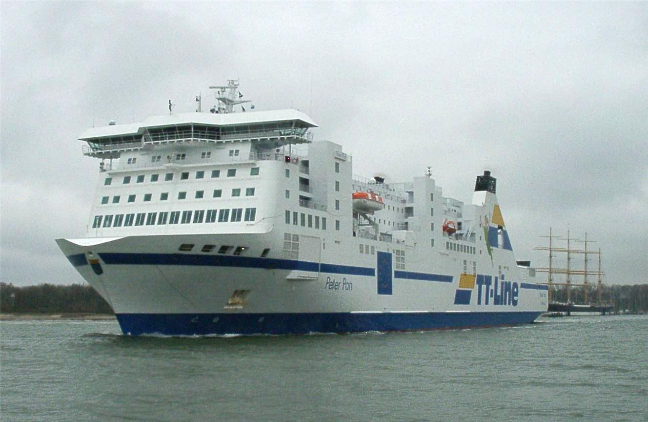 TT-Line vessel Peter Pan V (Reuploaded by Kjet with a different name, the original conflicted with a file in the English Wikipedia. Original uploaded by Scandi on 23 July 2006 19:35)